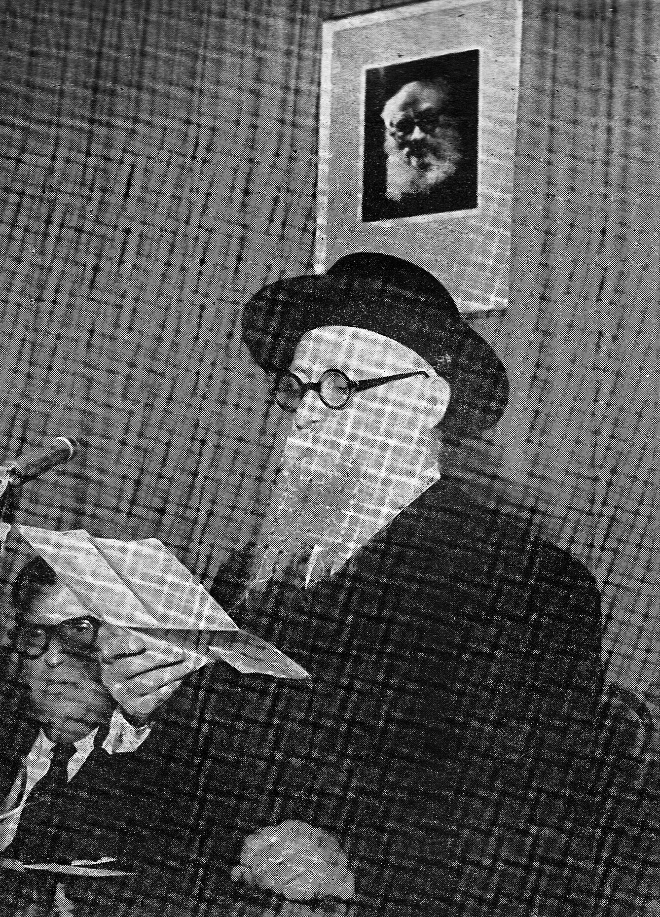 Rabbi Shlomo Yosef Zevin. A picture from a newspaper published more than 50 years ago